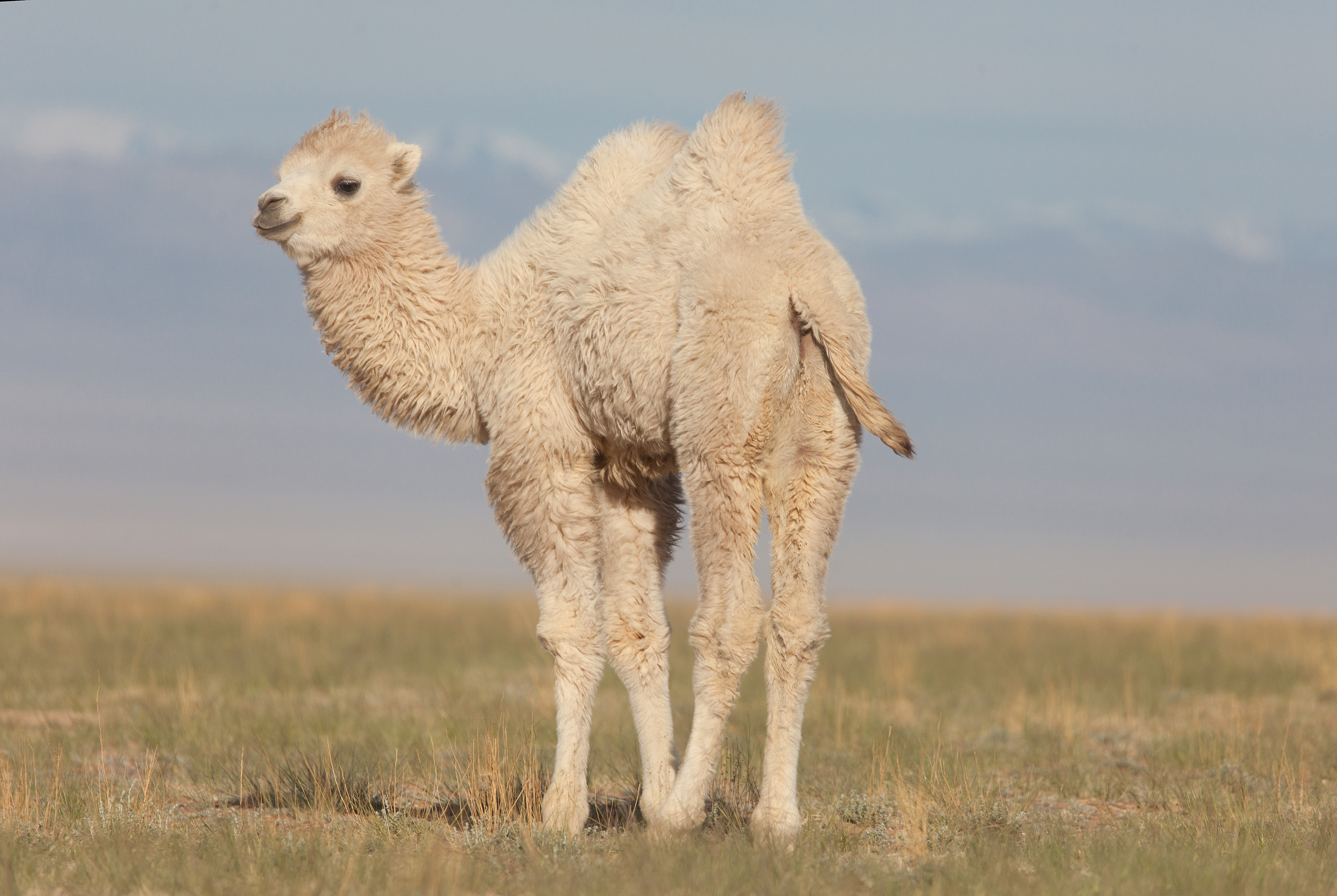 little white camel, in the desert of western Mongolia, Khovd region